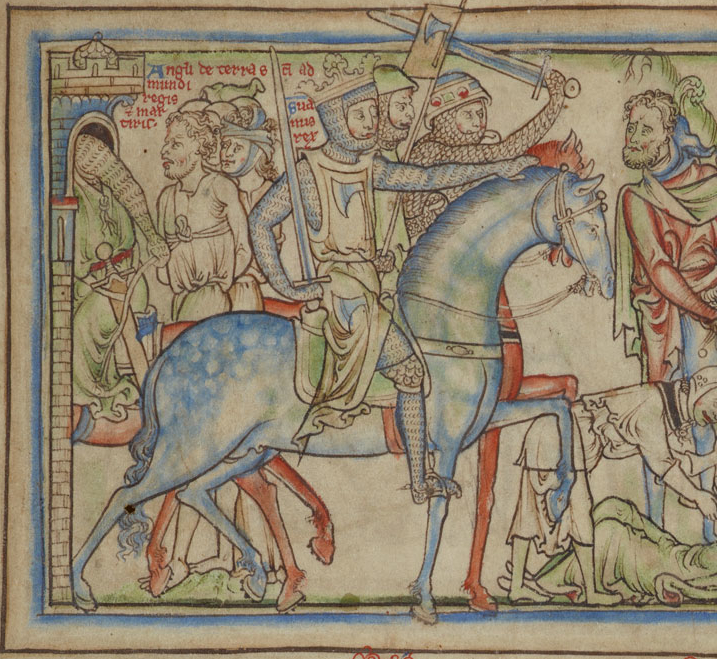 Sweyn Forkbeard invade England. (Cambridge University Library, Ee.3.59, fol. 4r)